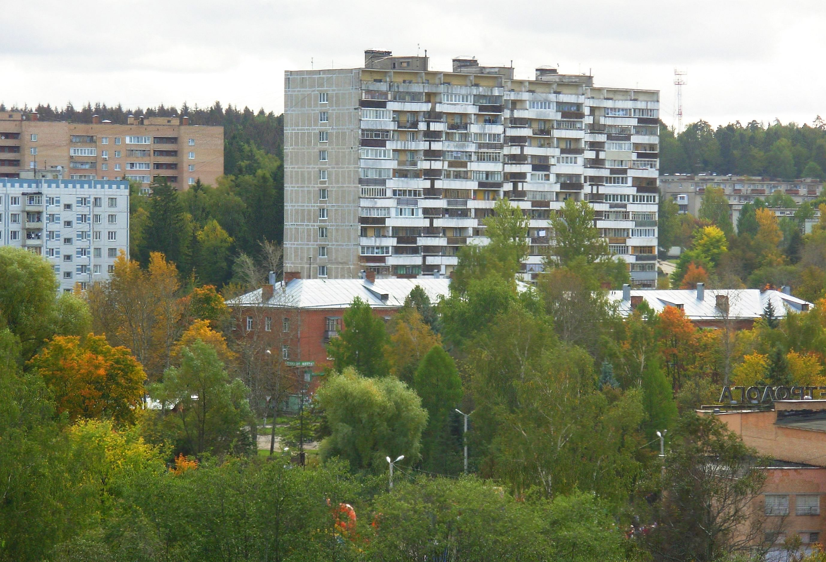 mendeleevo